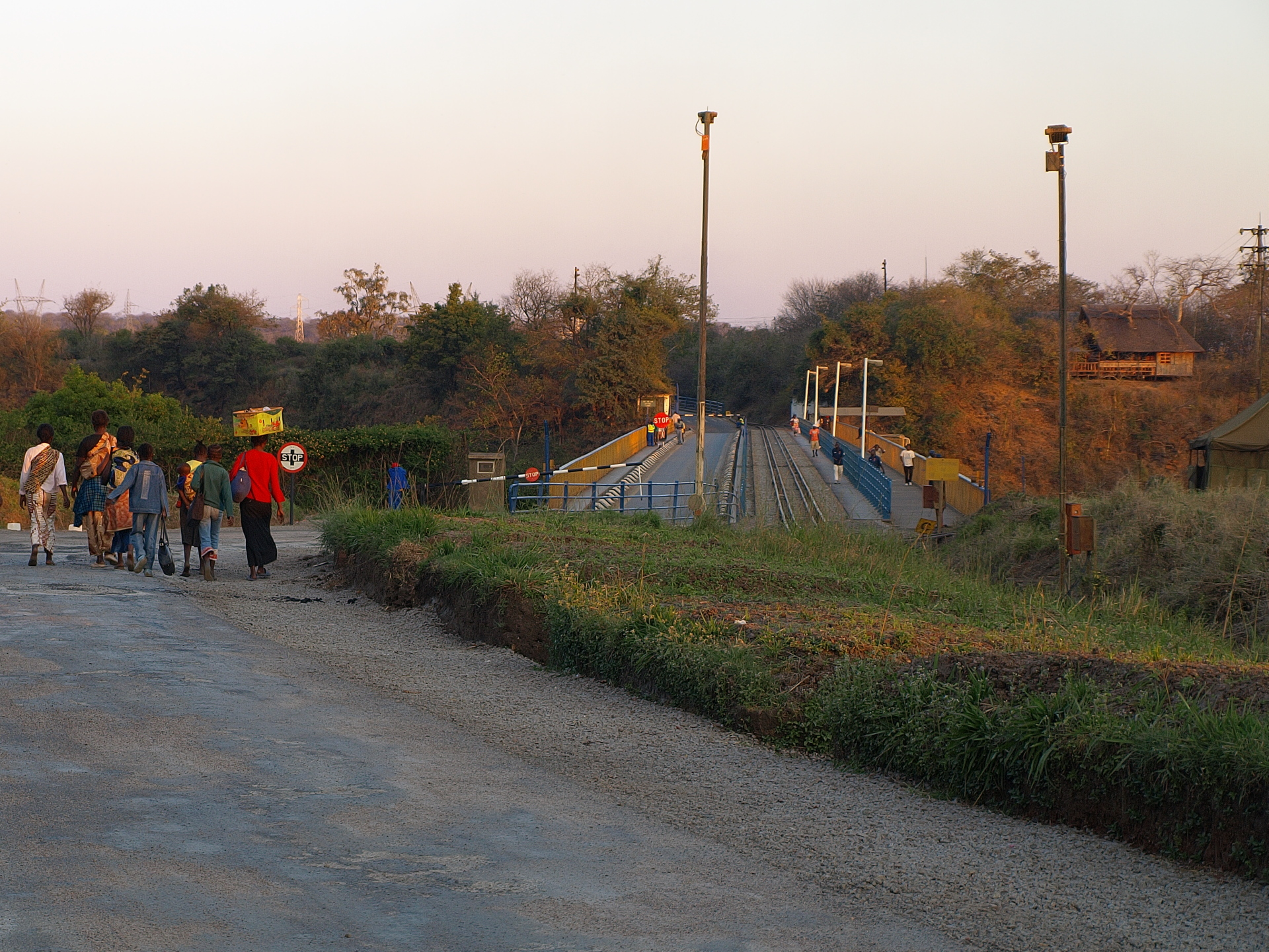 Victoria Falls Bridge from Zimbabwe-side at dusk.jpg